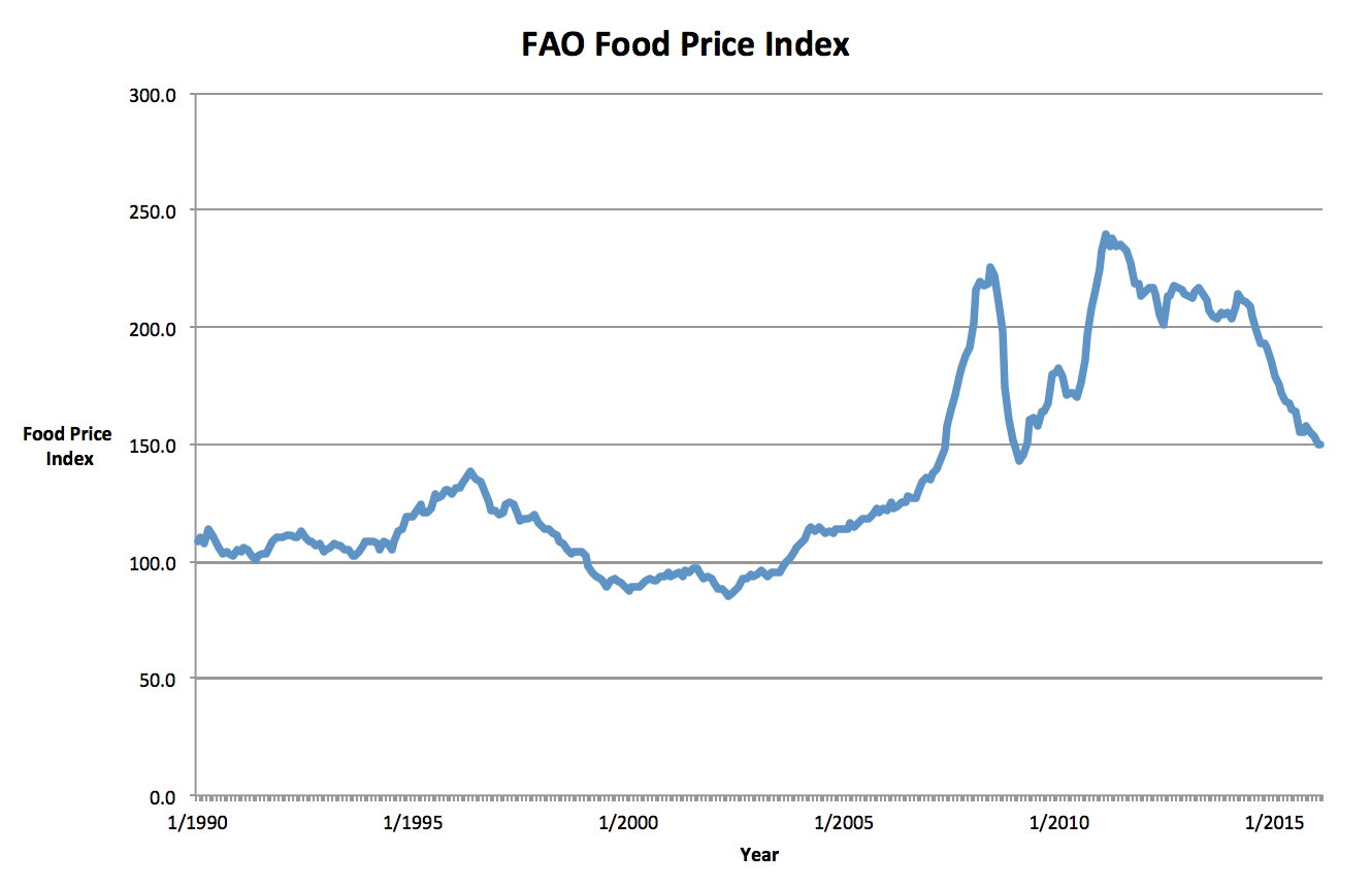 The FAO Food Price Index is a measure of the monthly change in international prices of a basket of food commodities. It consists of the average of five commodity group price indices, weighted with the average export shares of each of the groups for 2002-2004.